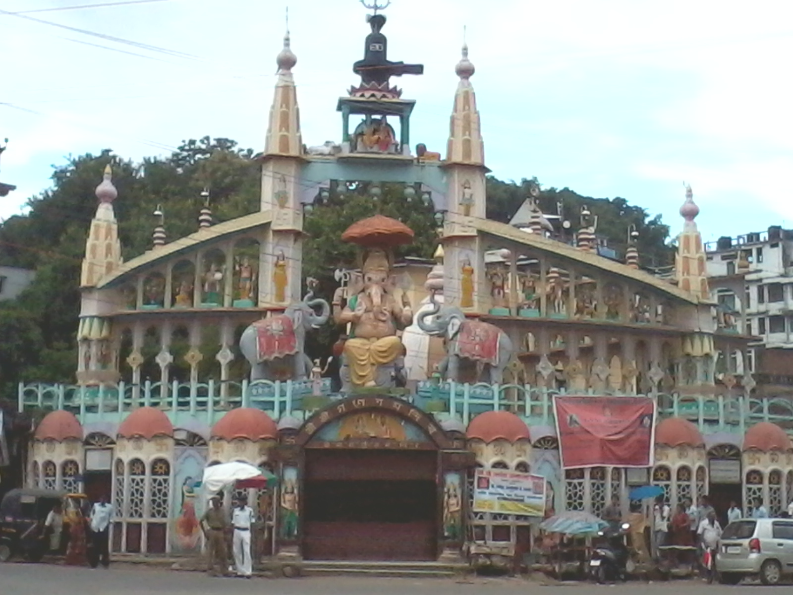 The Ganesh mandir at Ganeshguri in Guwahati. Took photograph on 11 September, 2012.